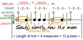 Illustration of musical metre